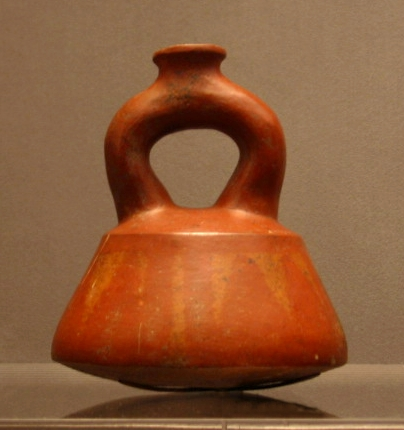 A stirrup jar — Tlatilco pottery, 1100 - 800 BCE. From Tlatilco, a Mesoamerican archaeological site. Collection of the Smithsonian National Museum of the American Indian, New York.